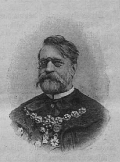 Lajos Lechner